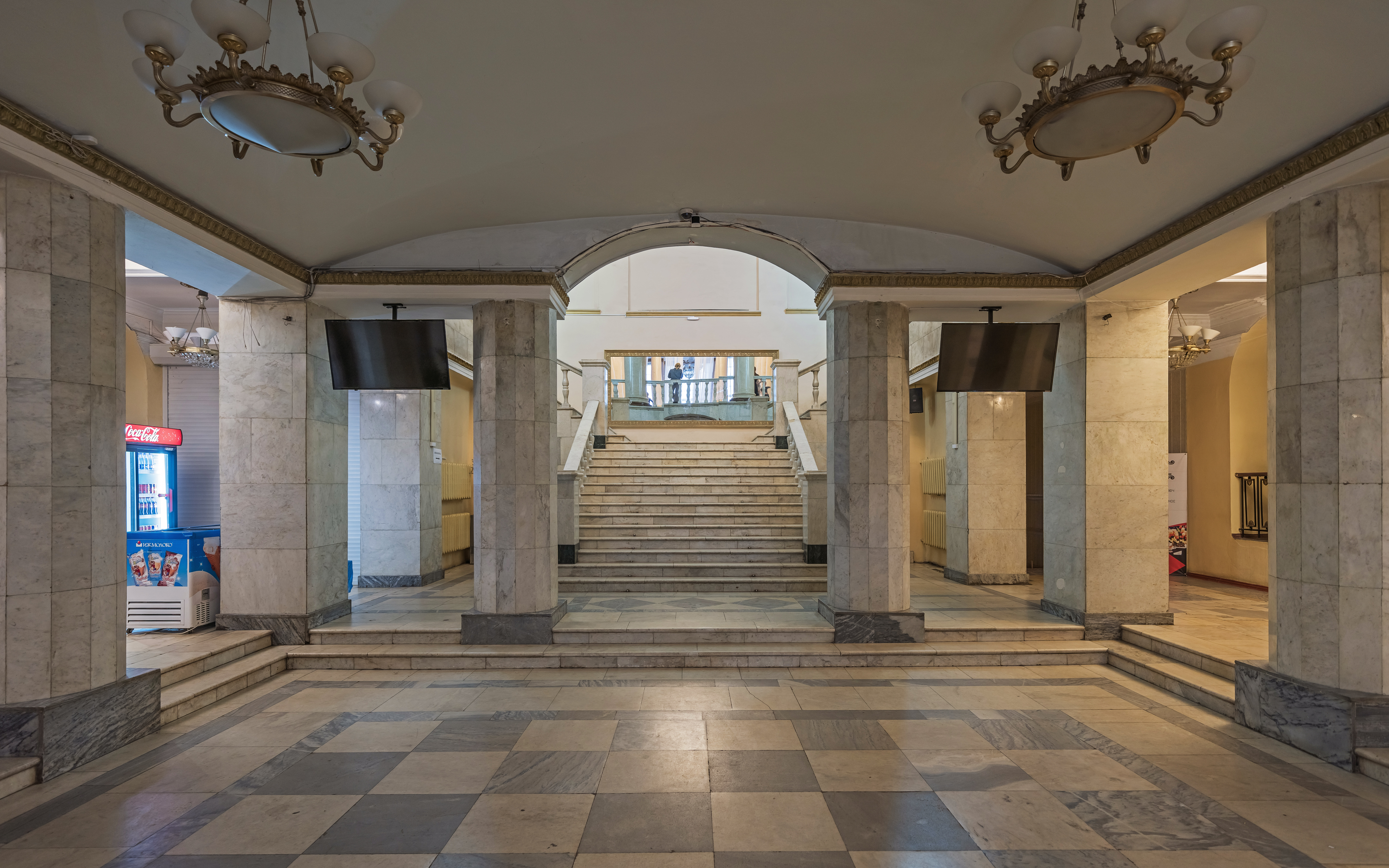 Lenin Palace of Culture in Motovilikha District of Perm, Russia